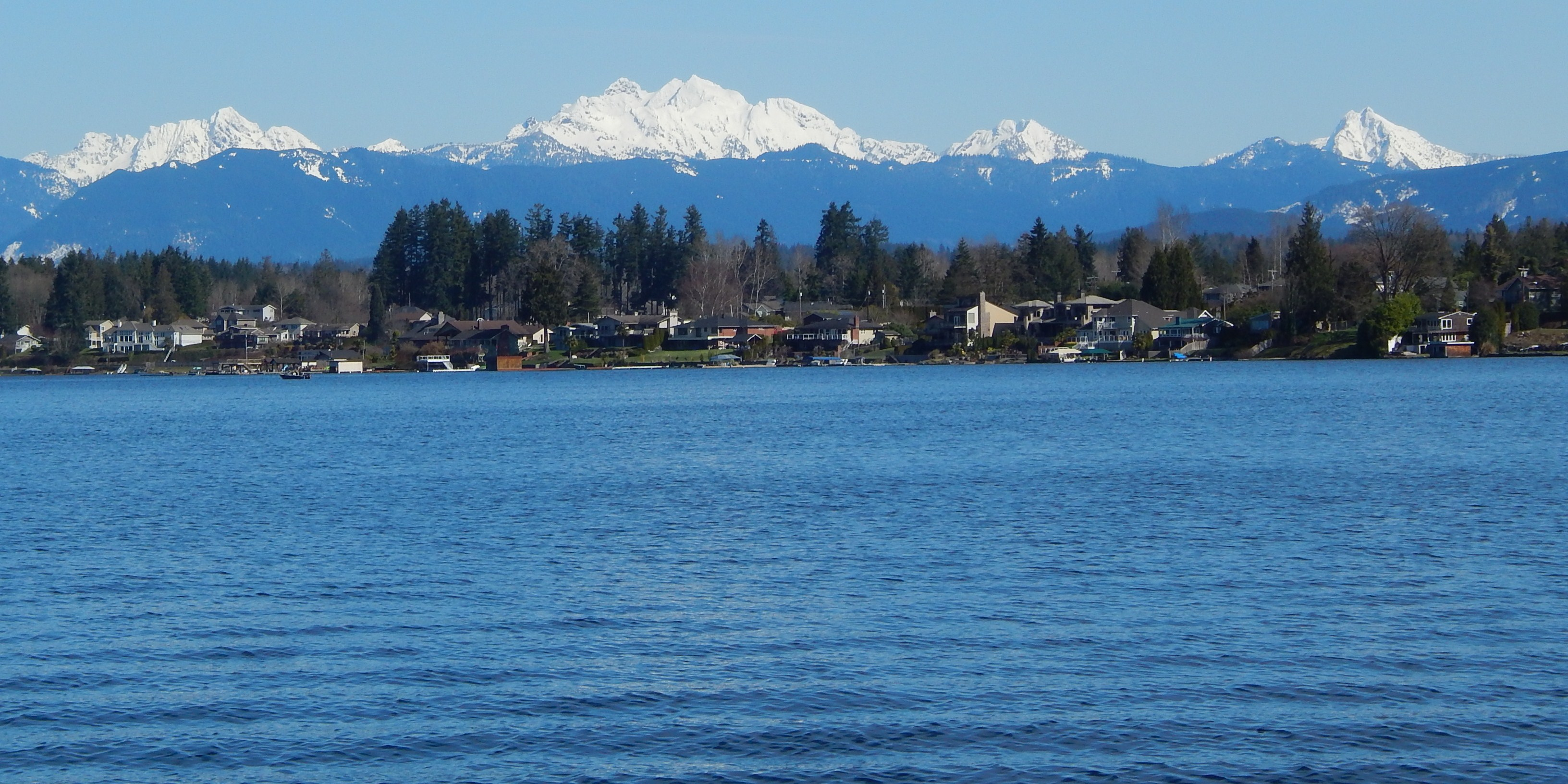 Lake Stevens WA panorama from Wyatt Park